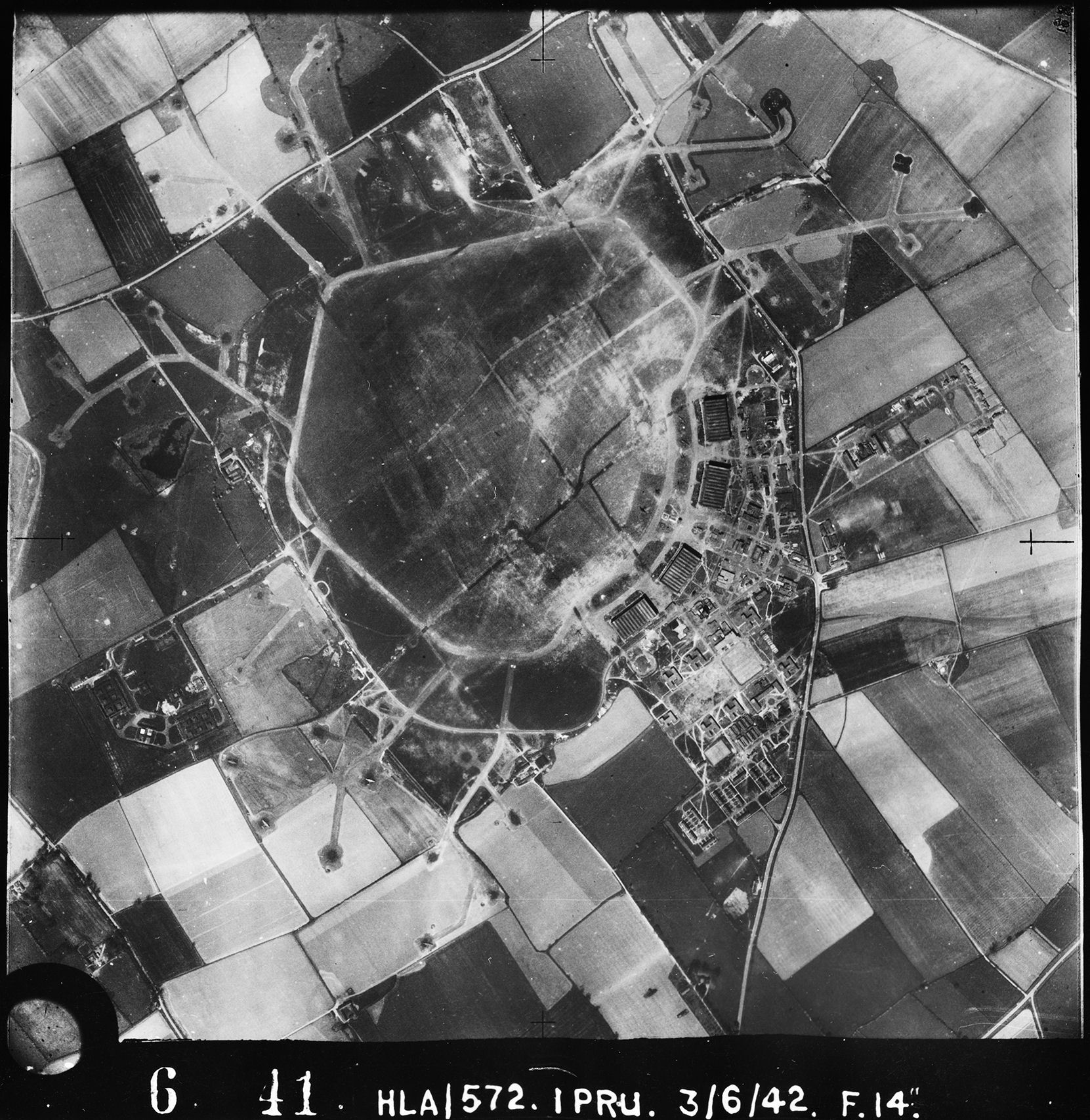 Aerial photograph of Cottesmore airfield looking north east, the technical site with four C-Type hangars is on the right, 3 Jun 1942. Photograph taken by No. 1 Photographic Reconnaissance Unit, sortie number RAF/HLA/572. English Heritage (RAF Photography).